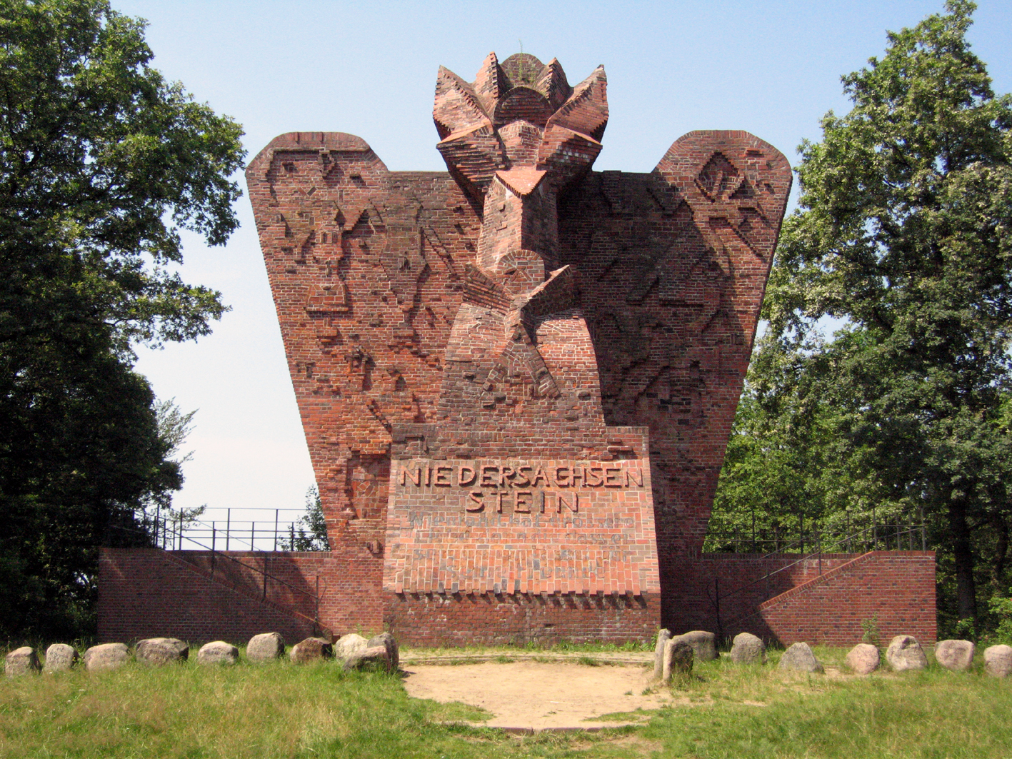 The “Niedersachsenstein” by Bernhard Hoetger in Worpswede, Germany.